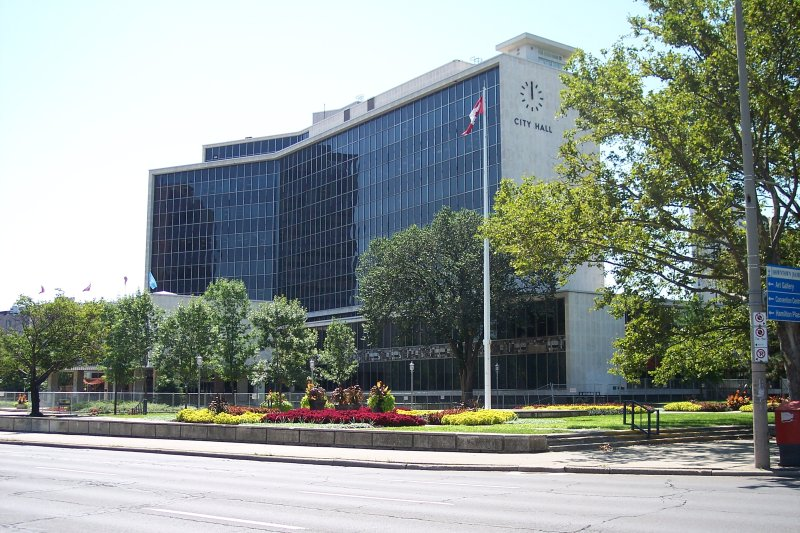 Photo by Aaron Segaert. Hamilton City Hall, Hamilton, Ontario City